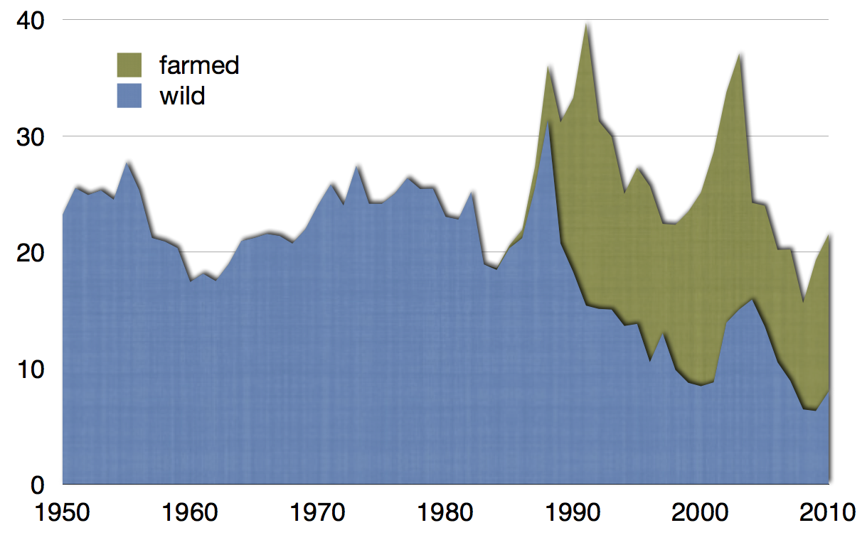 Global harvest of Chinook salmon, Oncorhynchus tshawytscha, in thousand tonnes from 1980 to 2010 as reported by the FAO. Based on data sourced from the FishStat database